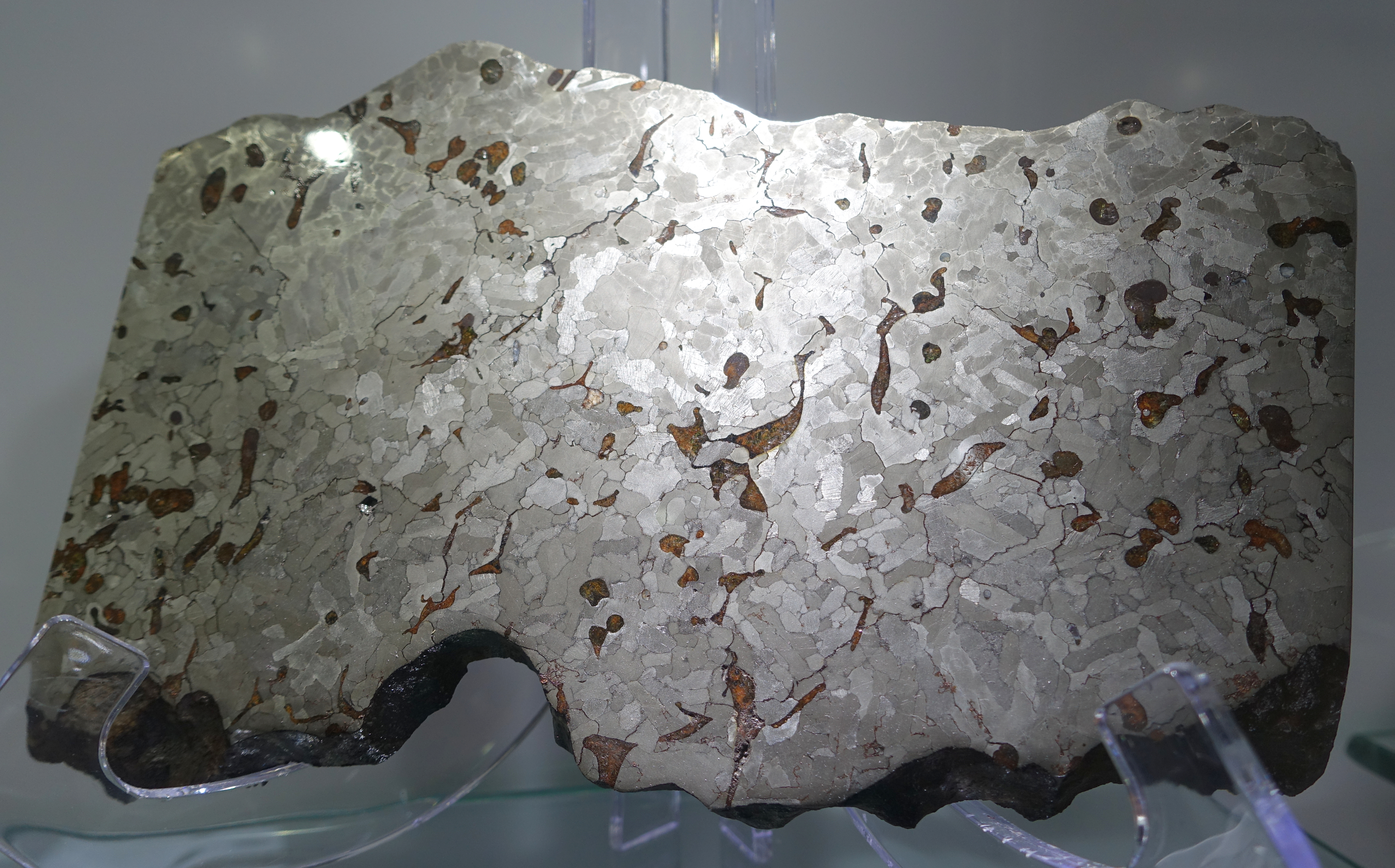 Weekeroo Station meteorite, etched slice. Exhibit at the Center for Meteorite Studies, Arizona State University, Tempe, Arizona, USA.